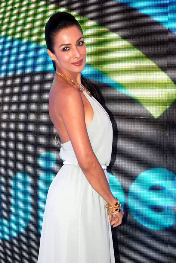 Malaika Arora launches Swipe Tablet